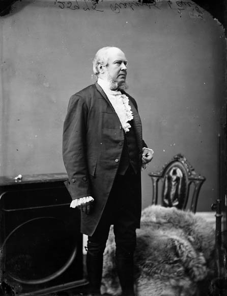 The Hon. Mr. Justice William Johnstone Ritchie, (Puisne Judge of the Supreme Court of Canada) b. Mar. 26, 1808 - d. Dec. 18, 1890